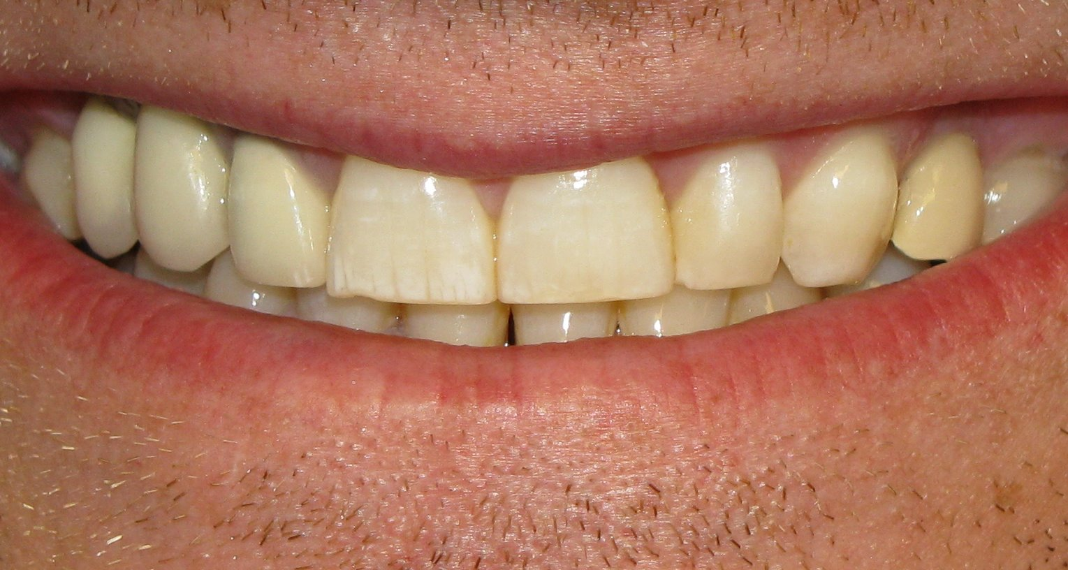 Photograph of mild fluorosis. Most noticeable on the upper right central incisor (tooth #21) (FDI-schema: 11)